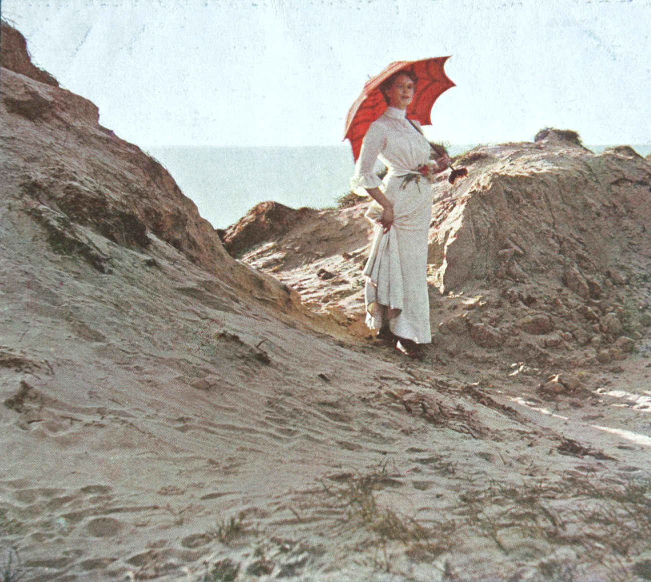 Early color photograph by Adolf Miethe, printed from three color-filtered black-and-white negatives made with a color camera designed by Miethe. The better-known early color photographs of Sergei Prokudin-Gorskii, Miethe's pupil, were made with the same type of camera.